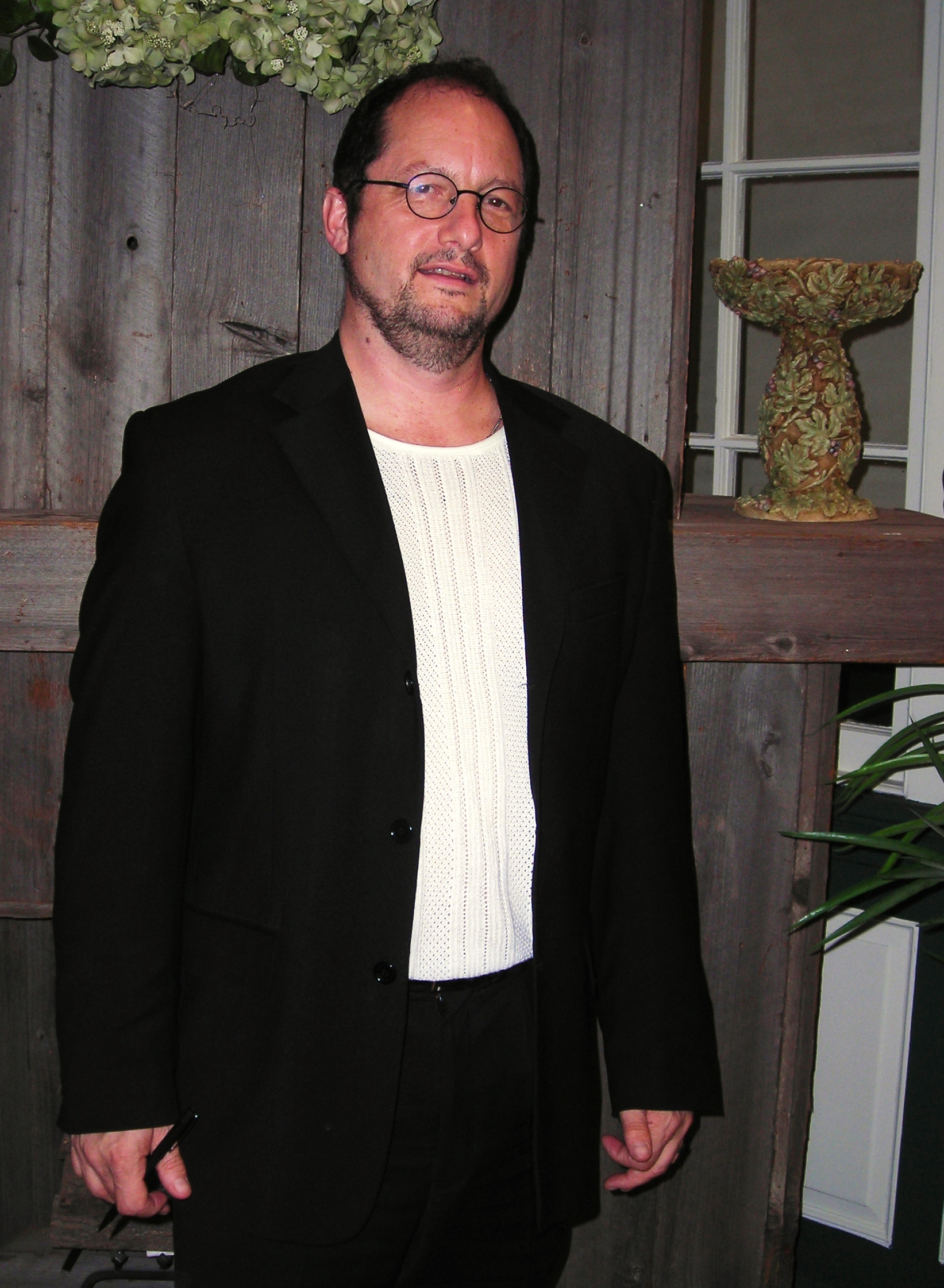 Photo of Bart D. Ehrman taken following the Greer-Heard Point-Counterpoint Forum at the New Orleans Baptist Theological Seminary.